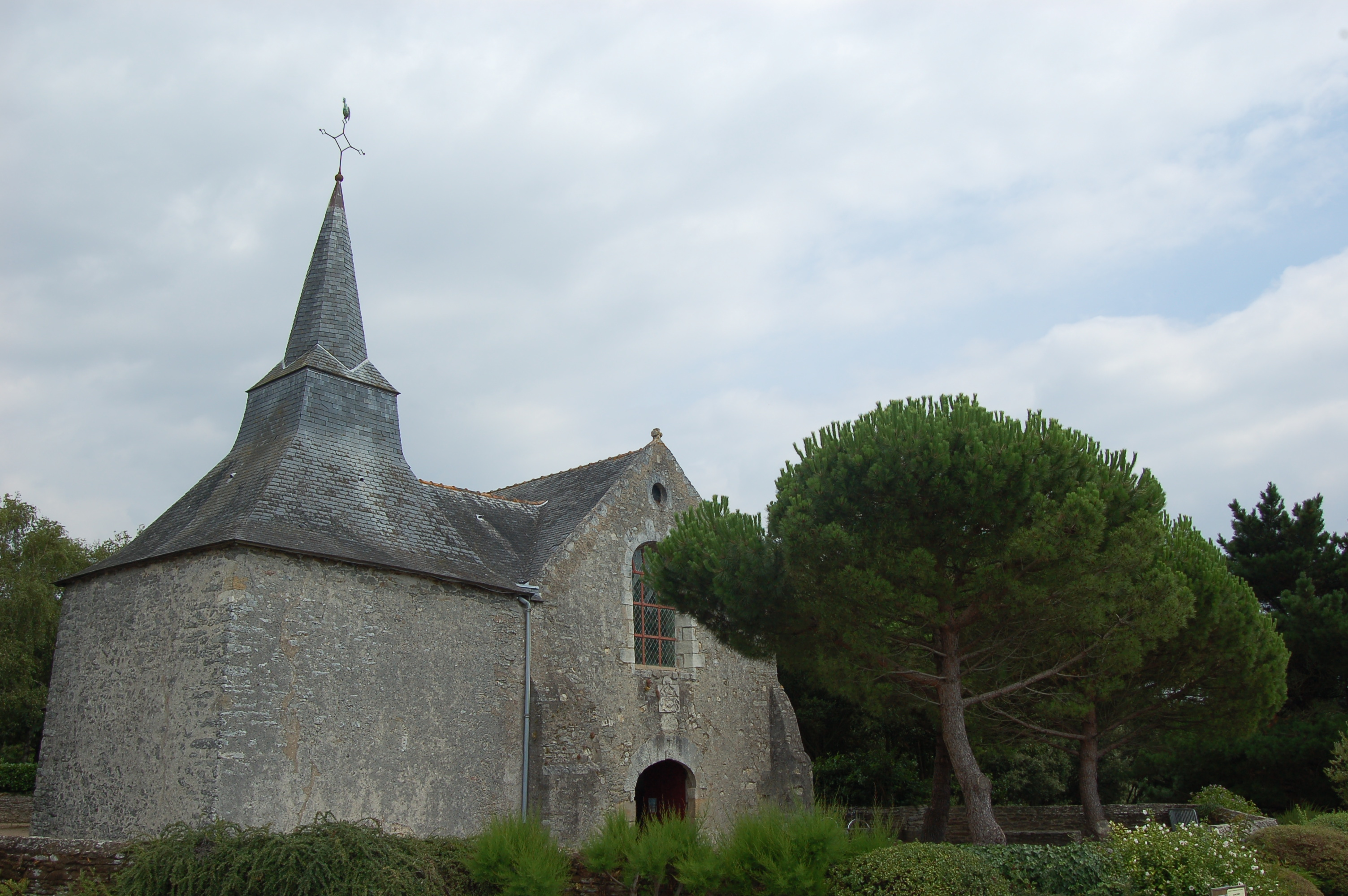 11th century Romanesque chapel in Prigny, Loire-Atlantique, France.